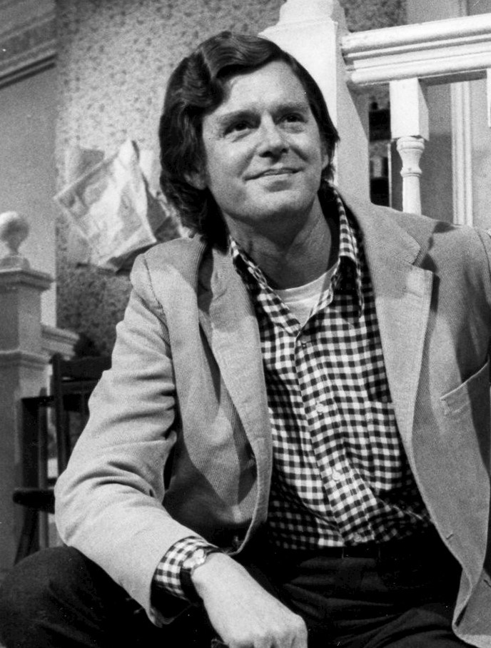 Cropped photo of author Earl Hamner on the set of the television show The Waltons. The item has no copyright markings on it as can be seen in the links above.